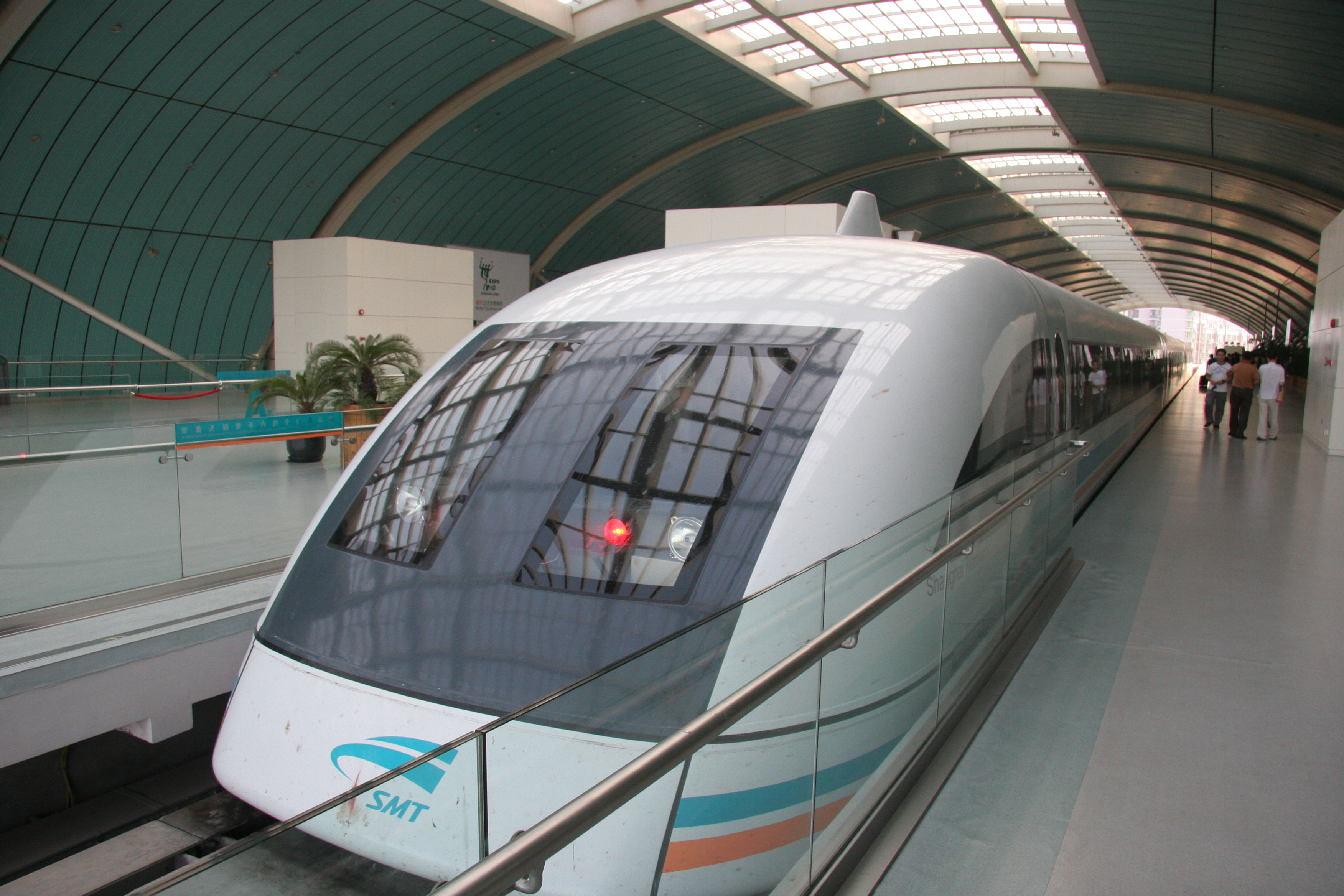 Shanghai unsorted